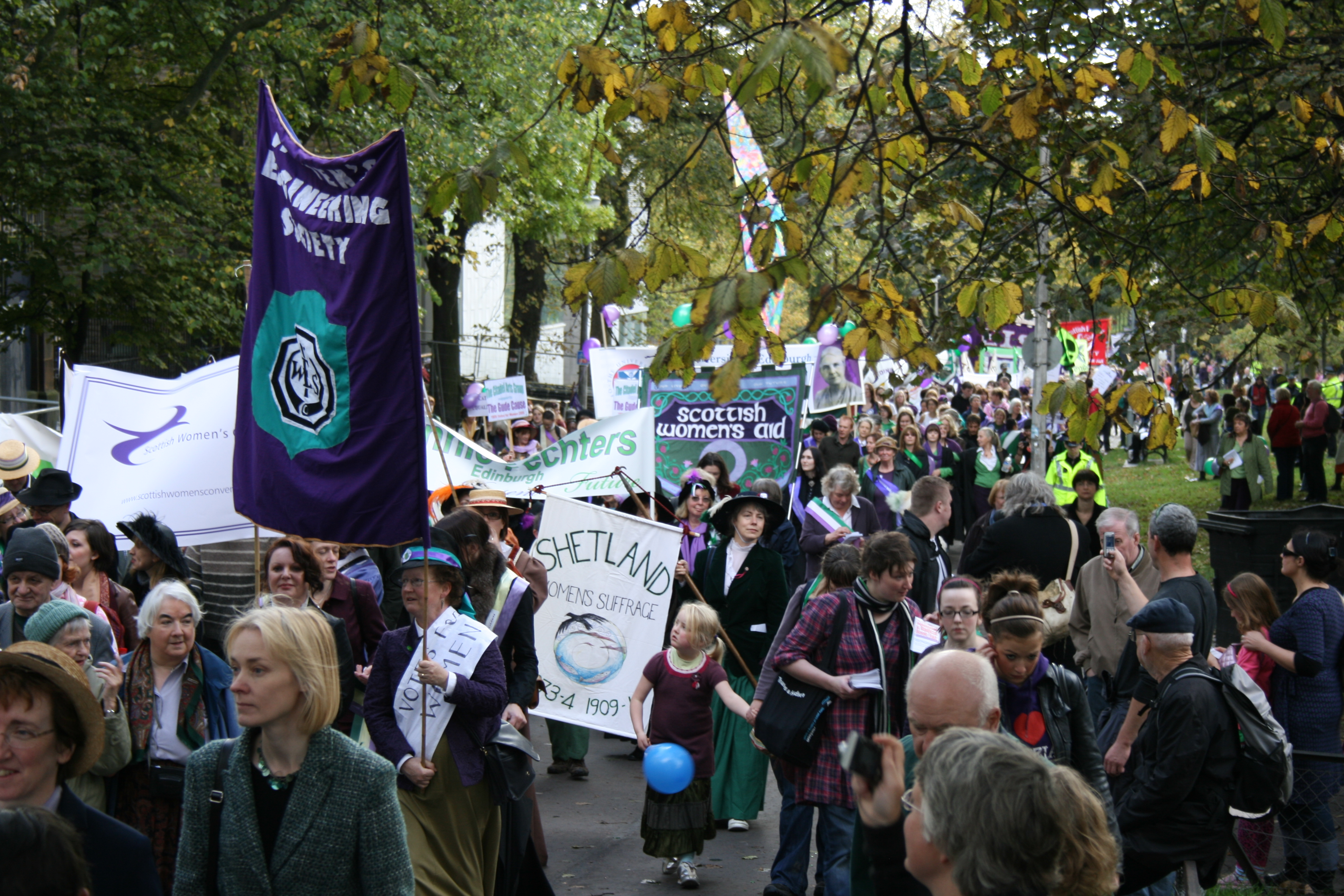 The participants carrying banners and placards on the Gude Cause Procession, Edinburgh 2009